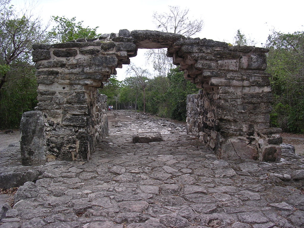 Archway leading to ruins within San Gervasio